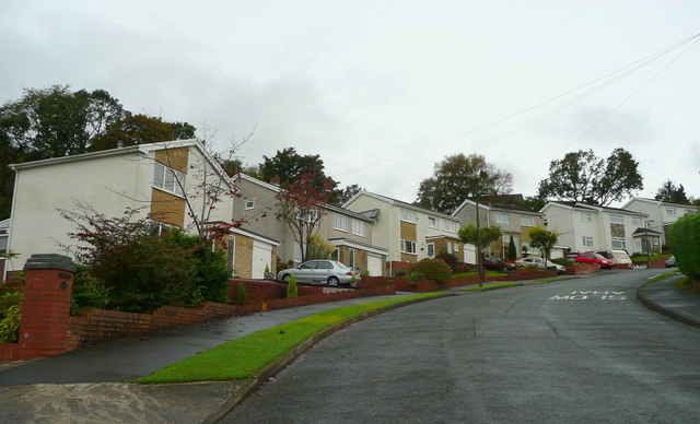 Bryntawe, Ynystawe A very steep suburban road on the northern edge of the Swansea conurbation.